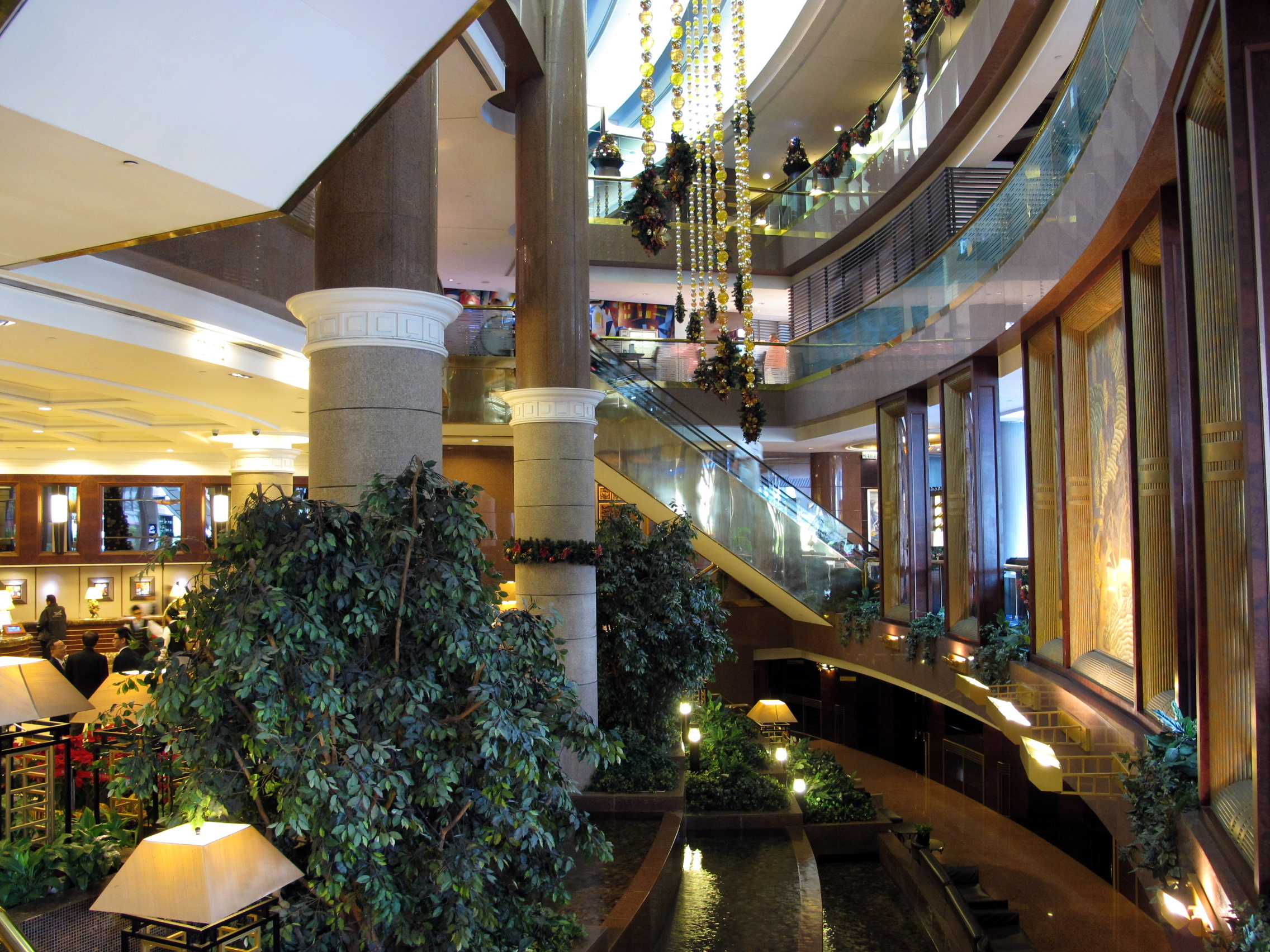 New World Millennium Hong Kong Hotel Lobby